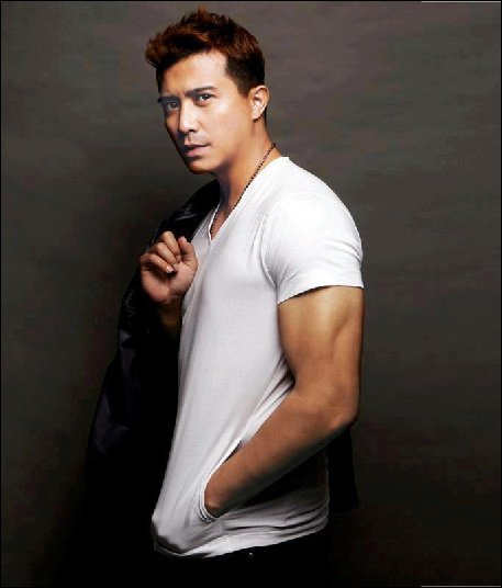 Aaron Aziz, a Singaporean film and television actor.